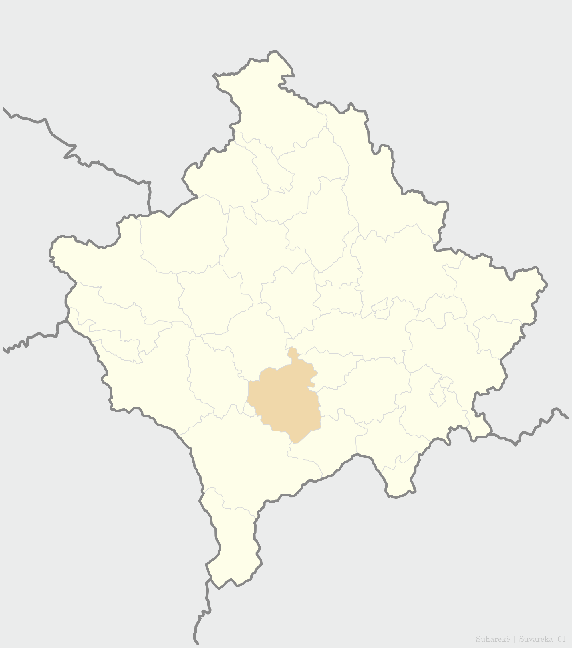 Municipality of Suva Reka map